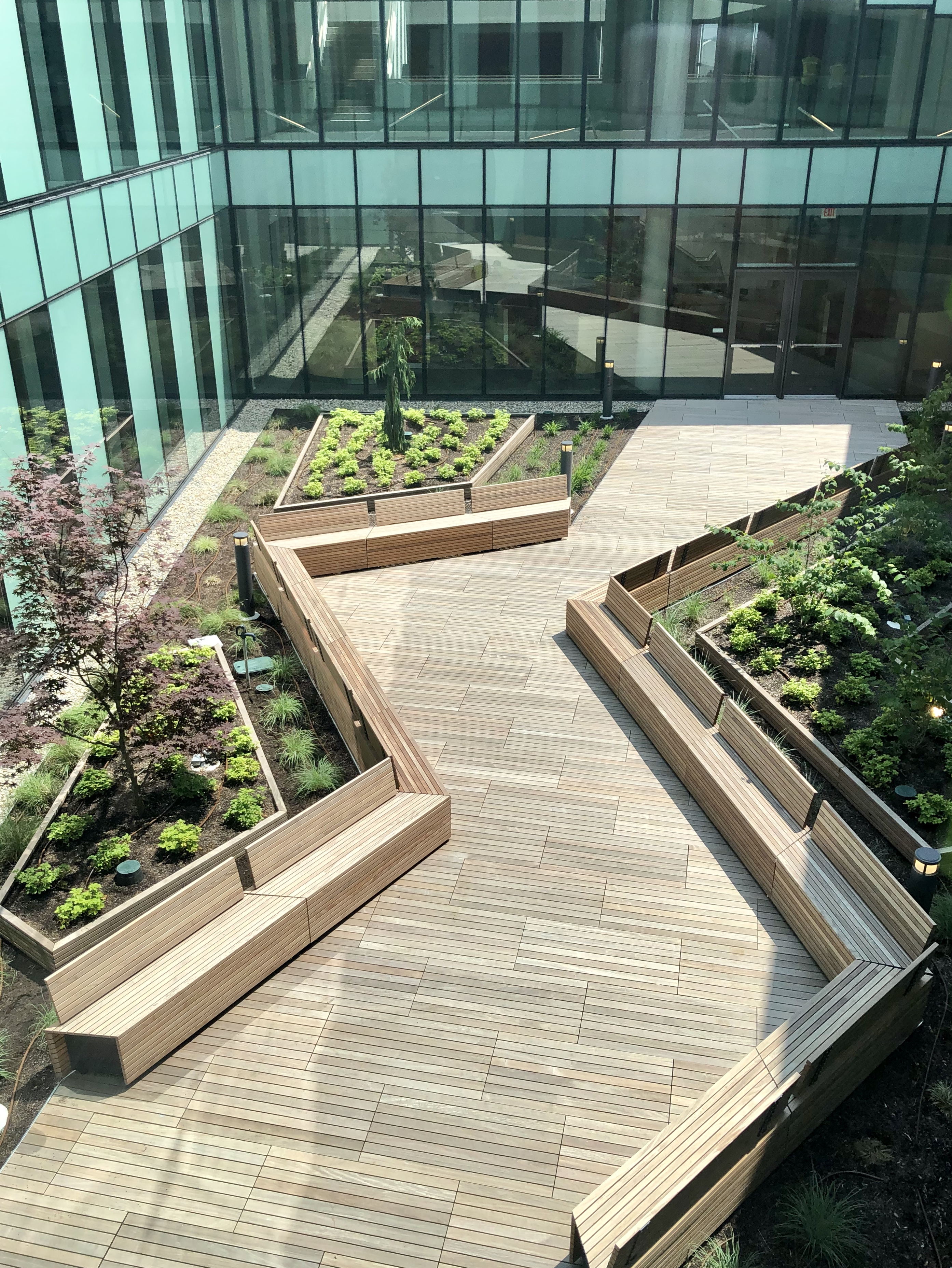 Overhead view of a Lindner Hall courtyard.